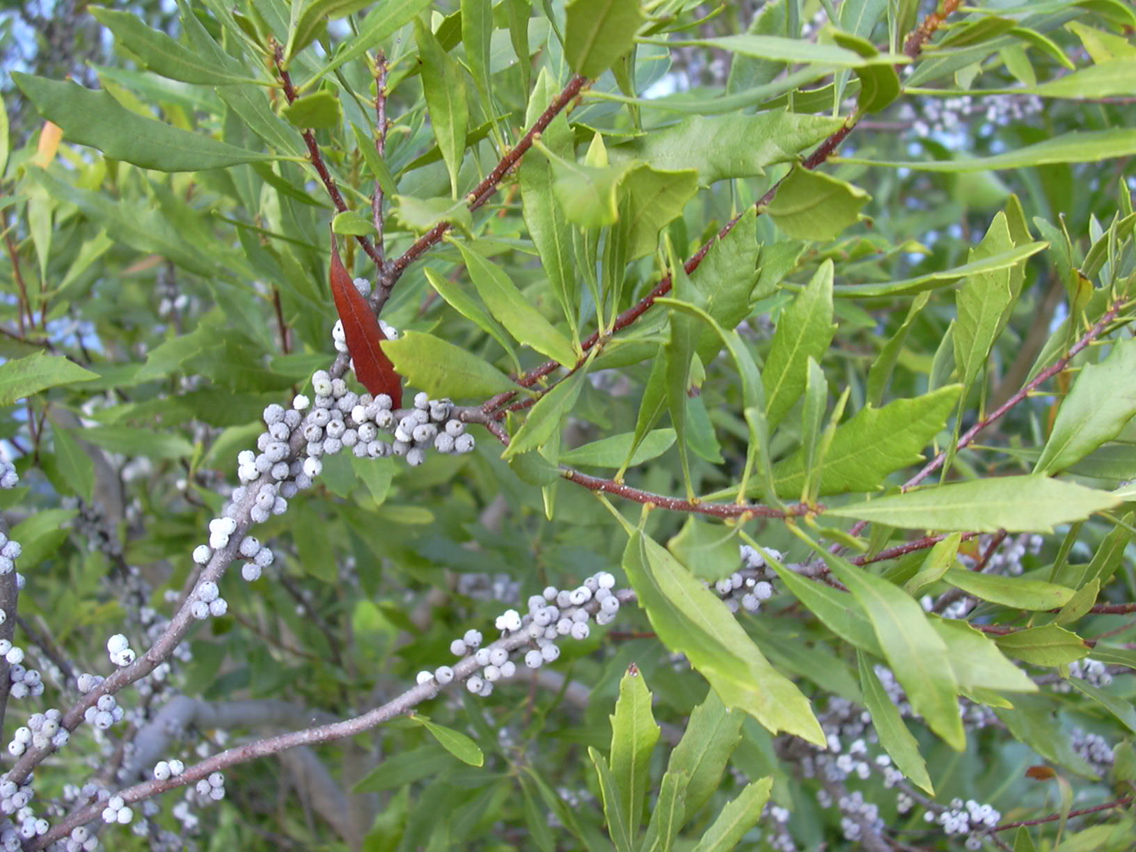 Morella cerifera (fruit). Location: Florida, Sarasota